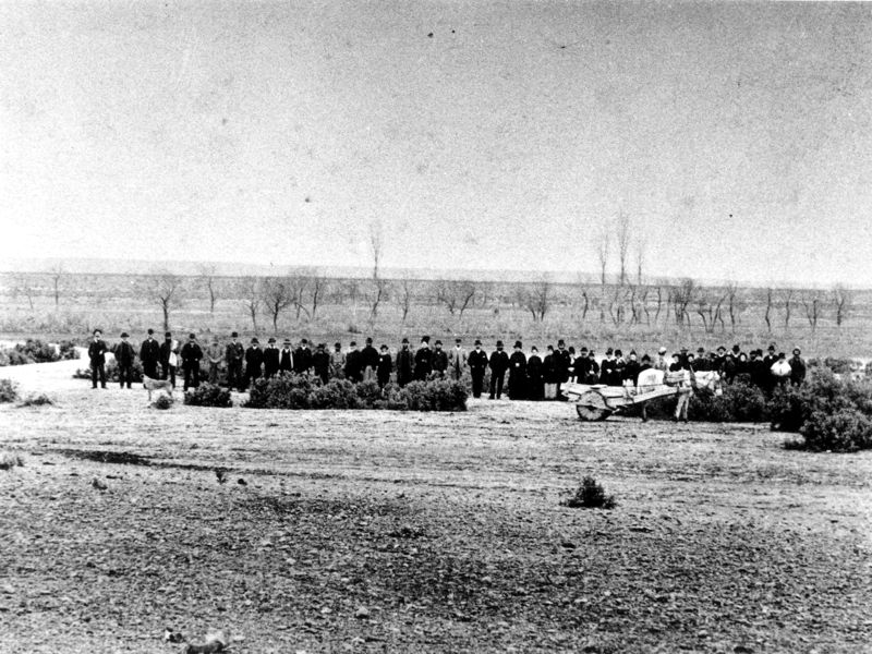 Welsh celebrating the 25th anniversary of the landing of Mimosa in Rawson, Y Wladfa